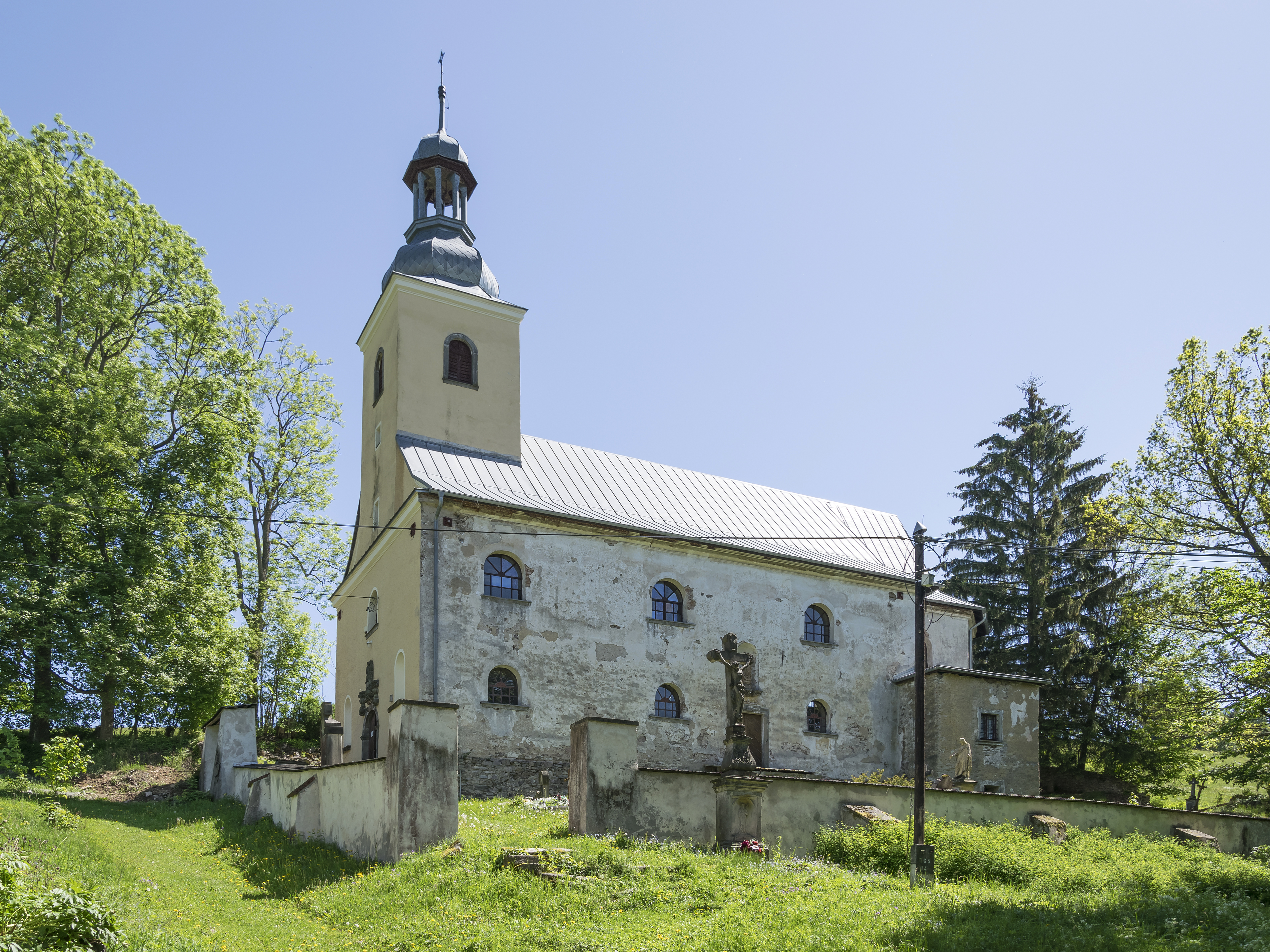 Church of the Visitation in Niemojów